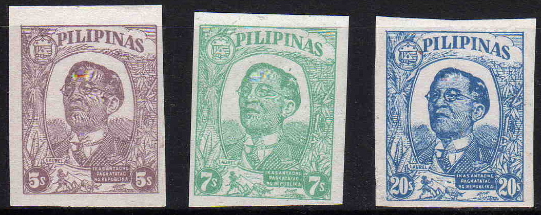 José P. Laurel